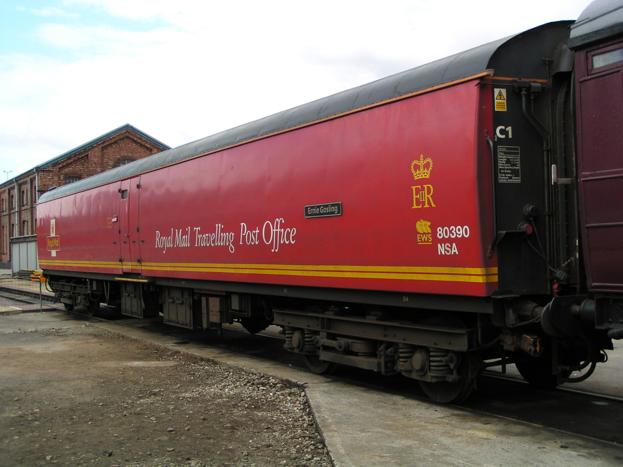 British Rail Post Office Sorting Van, NSA 80390 "Ernie Gosling" on display at Doncaster Works open day on 27th July 2003. This vehicle was operated by EWS country-wide in the consist of TPO mail trains. Image by Phil Scott (Our Phellap)